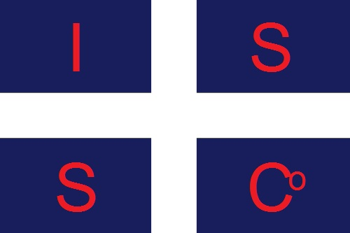 The company flag of the Isles of Scilly Steamship Company. This is a non-free symbol for the Isles of Scilly Steamship Company. It is used in Wikimedia Commons to convey the meaning intended and to avoid tarnishing or misrepresenting of the intended image. The significance of the symbol is to help the reader identify the Isles of Scilly Steamship Company, assure the readers that they have reached the right article containing critical commentary about the organization, and illustrate the organization's intended branding message in a way that words alone could not convey.